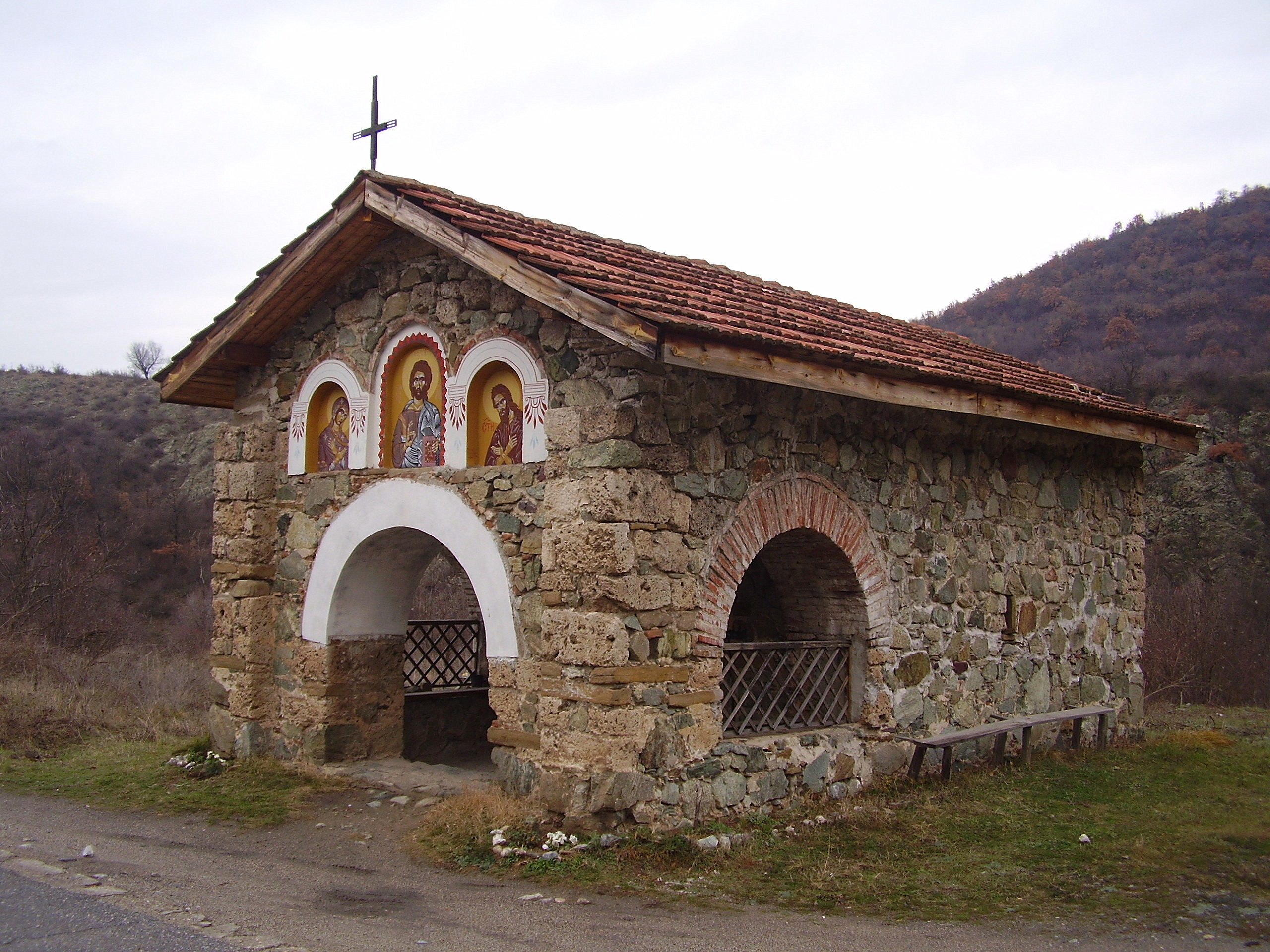 Late Medieval church "Saint Ivan", village Pastuh, Nevestino Municipality, Bulgaria